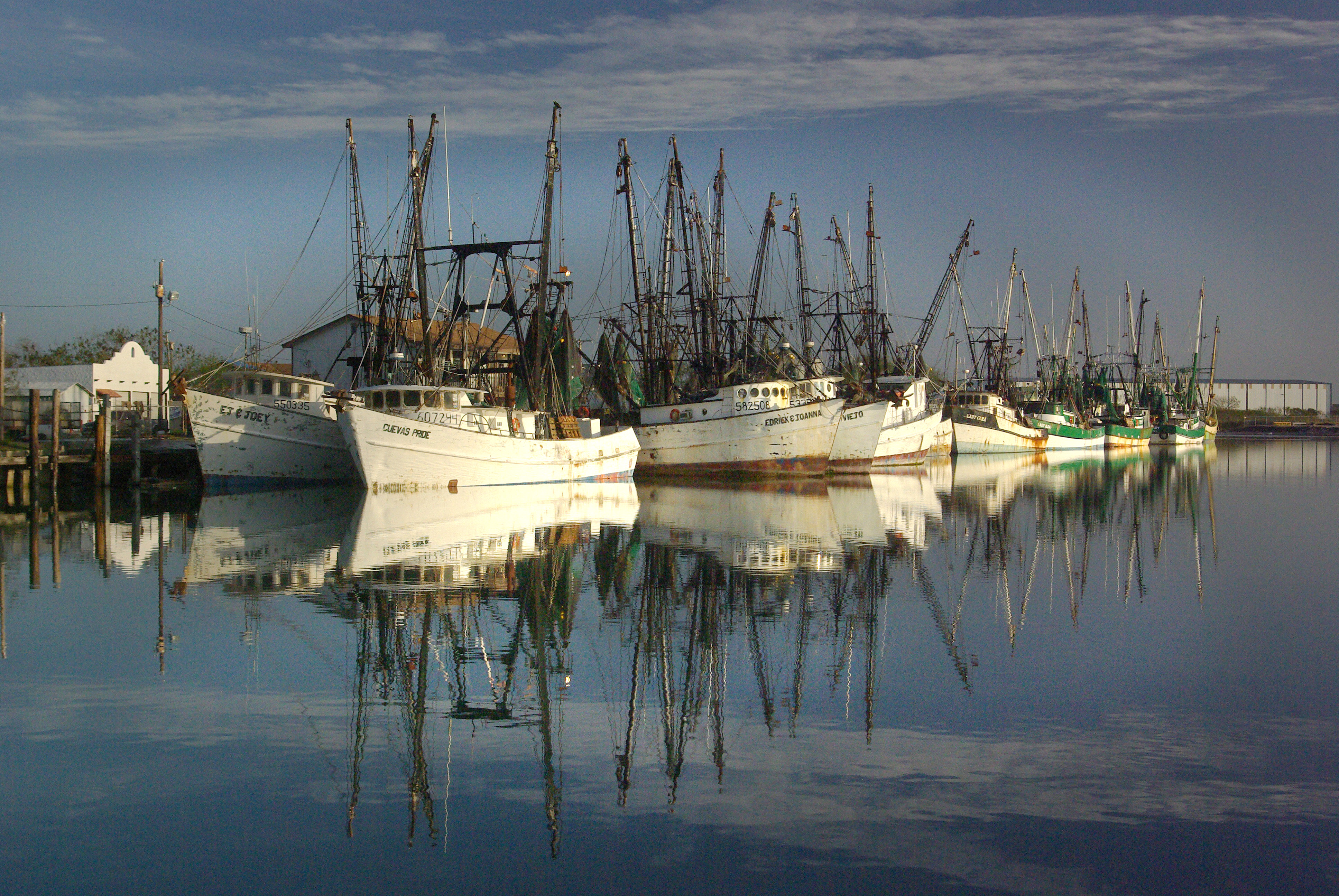 TEXAS & SOUTHERN NM BIRDS & STUFF